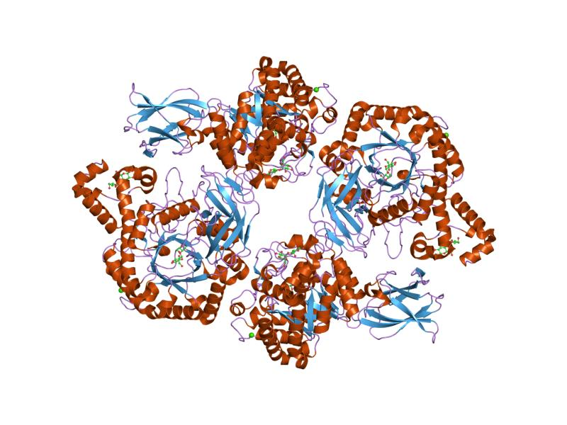 Cartoon representation of the molecular structure of protein registered with 1b90 code.